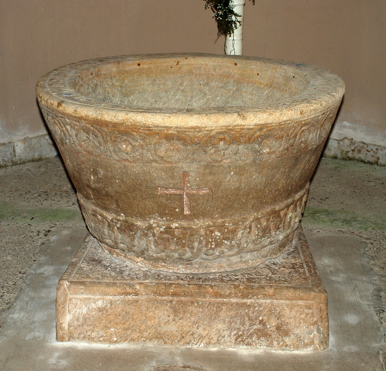 Baptismal font of the Church of San Pelayo in Arenillas de San Pelayo (Palencia, Castile and León).